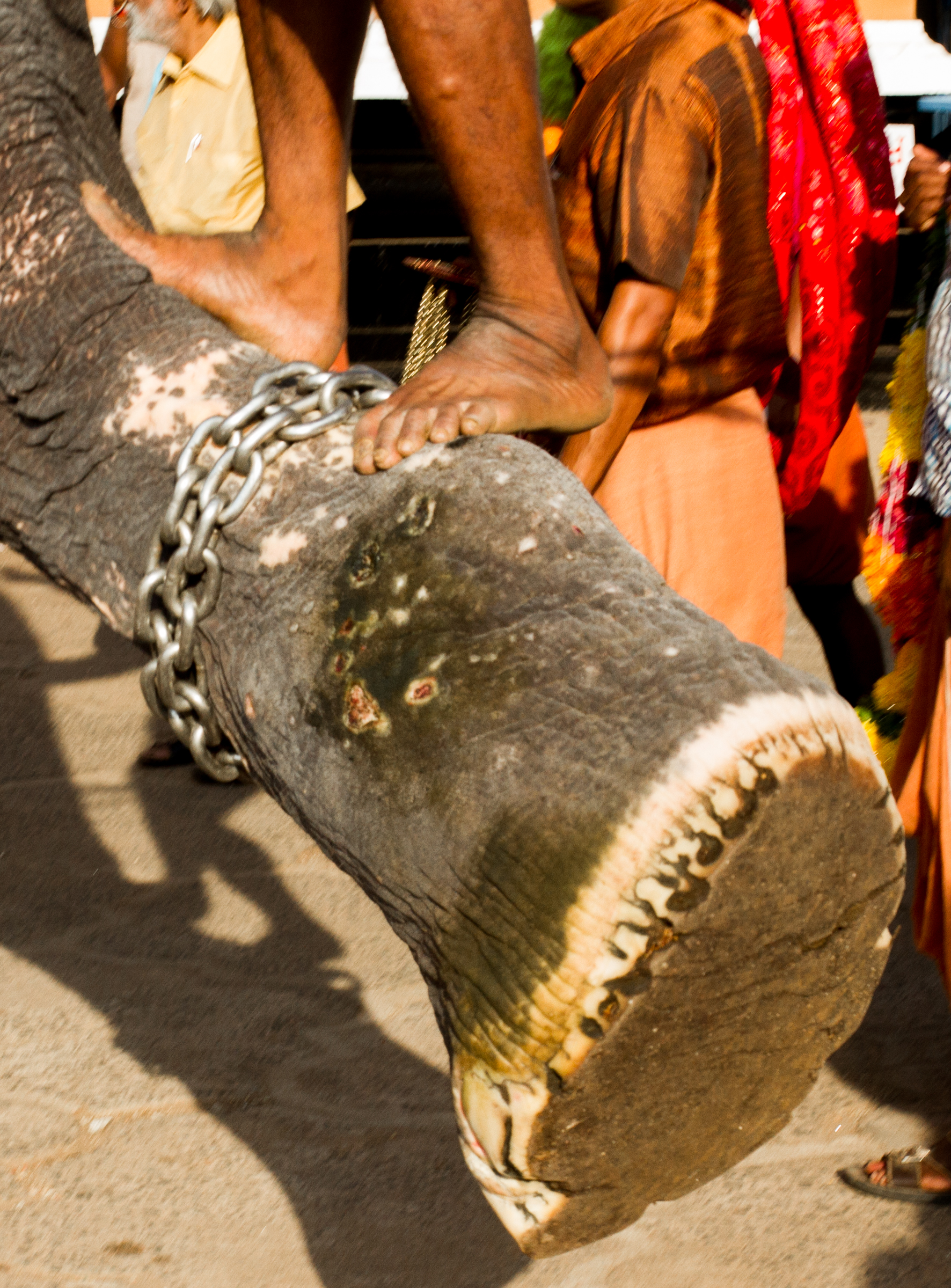 Captive Elephants of Kerala, Cruelty against elephants, Aanapremam, Thrissur Pooram, Festivals of Kerala, Elephants in captivity, Temples of Kerala